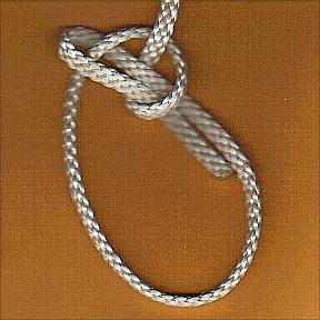 Inuit, Boas, or Eskimo bowline ("inside" variant -- working end inside loop)